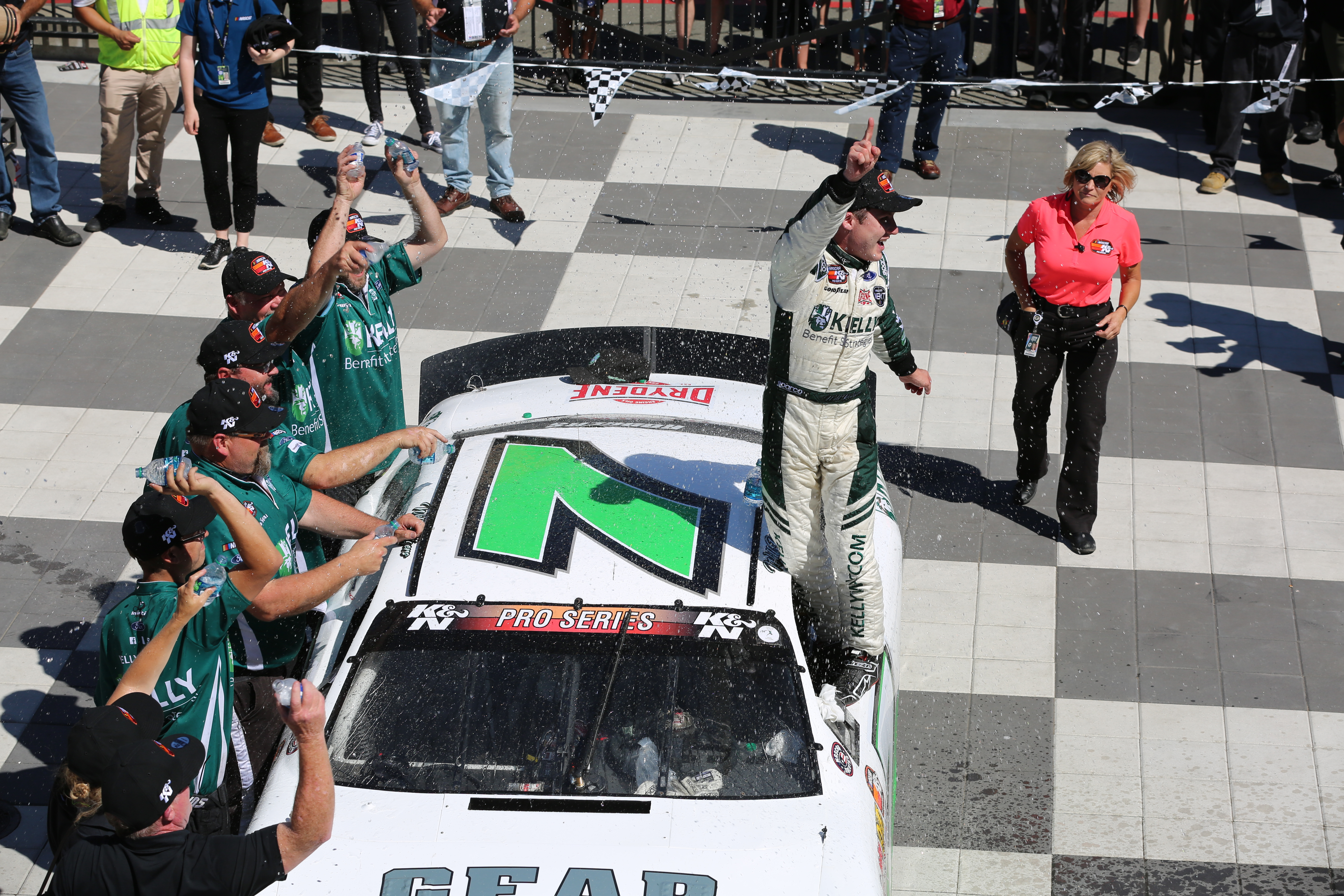 Will Rodgers celebrates in Victory Lane after winning the Carneros 200 at Sonoma Raceway in 2018.